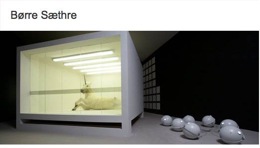 see bootleg shot